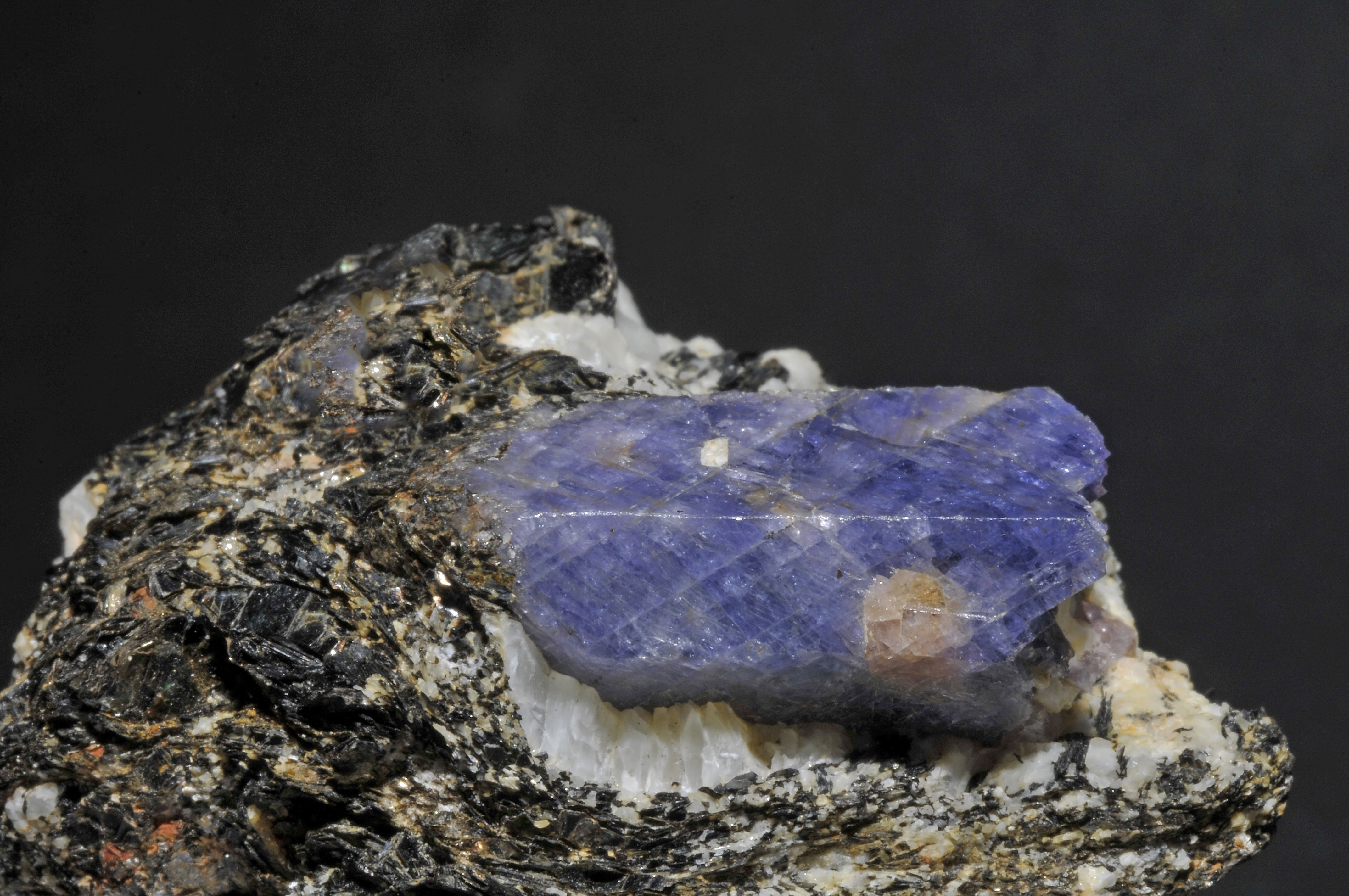 crystals of corundum var. sapphire, crystals of microcline var. amazonite, crystals of biotite : Zazafotsy Quarry (Amboarohy) Zazafotsy Commune, Ihosy District, Horombe Region, Fianarantsoa Province, Madagascar